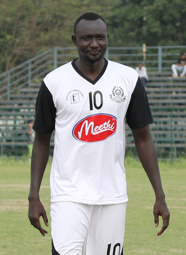 James Moga on his debut for Mohammedan S.C.